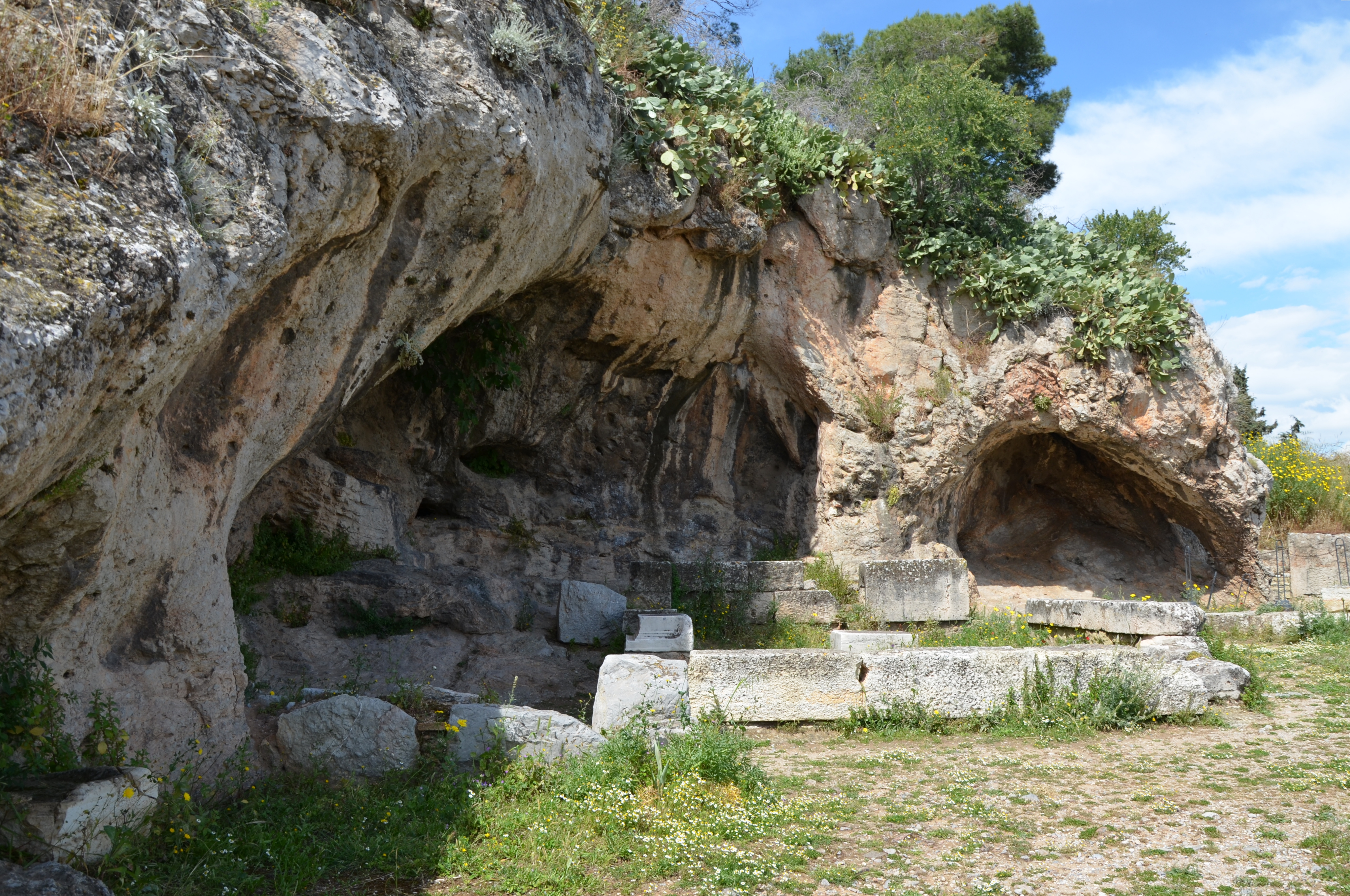 Peribolos wall and small temple with cella and pronaos opening east. Sanctuary of Pluto (Hades), god of the Underworld, who abducted Persephone. Situated to the west of the Small Propylaea. This area of the cavern recalls the entrance to Hades: it was associated with the abduction of Persephone by Pluto in the autumn and her ascent to earth again in the spring. The myth is connected with the fructification of the earth after the sowing of the seed, which was regarded as Demeter's gift to the human race. The temple of Pluto is Archaic in date but was remodeled on many occasions from the fourth century BC down to Roman times.